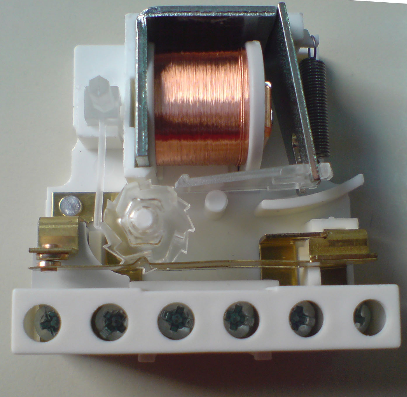 Latching Relay